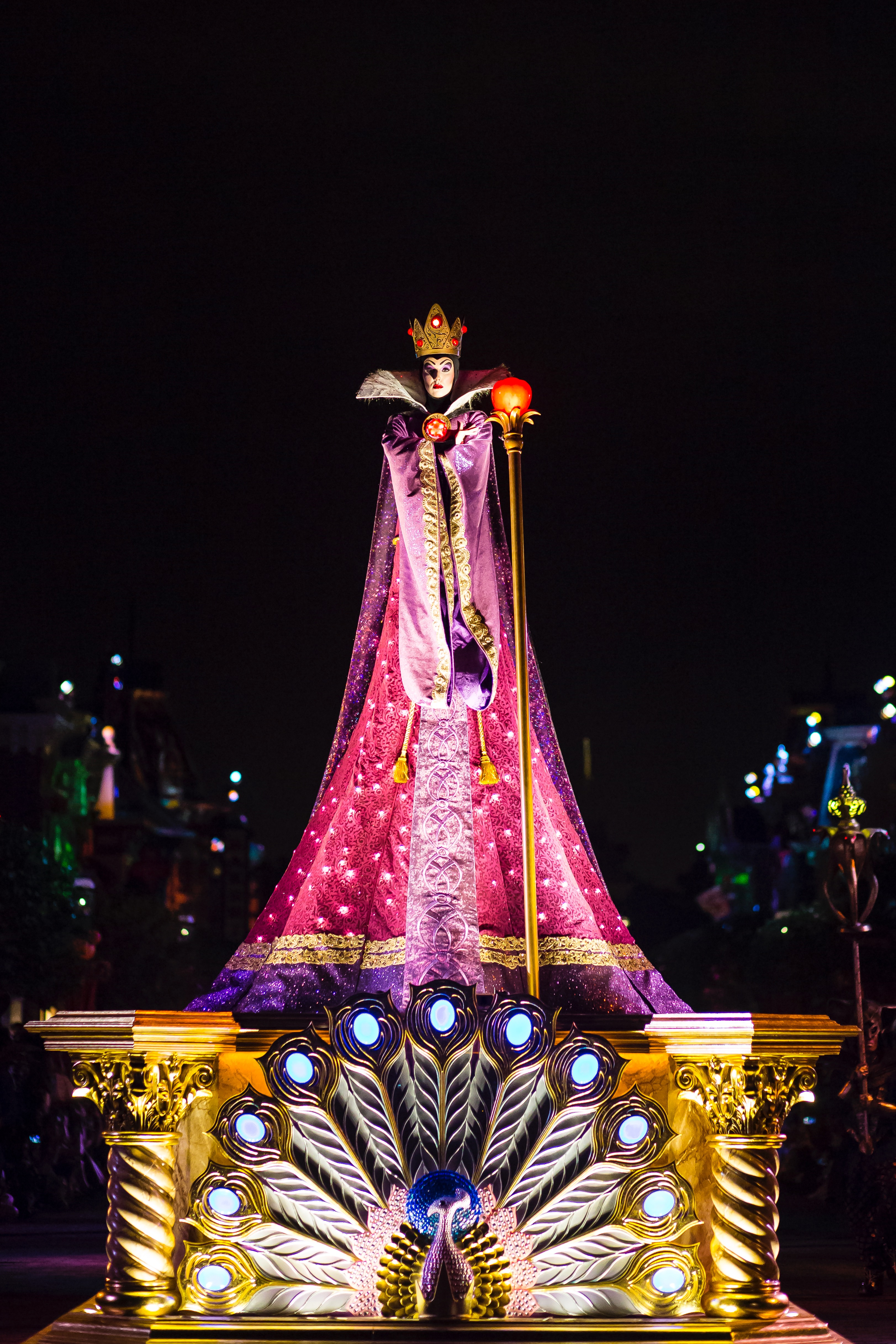 The Evil Queen during Hong Kong Disneyland's Villians Night Out! parade, premiering in 2016.